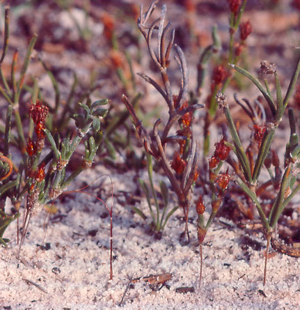 Male Alexgeorgea flowers are seen in the background, while in the foreground the stigmas, appearing as three purple threads, are all that show aboveground of the female flower.